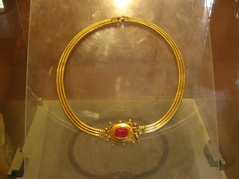 Gold and cornelian necklace found in Dalverzine Tepe. II-I c. BC. Reference